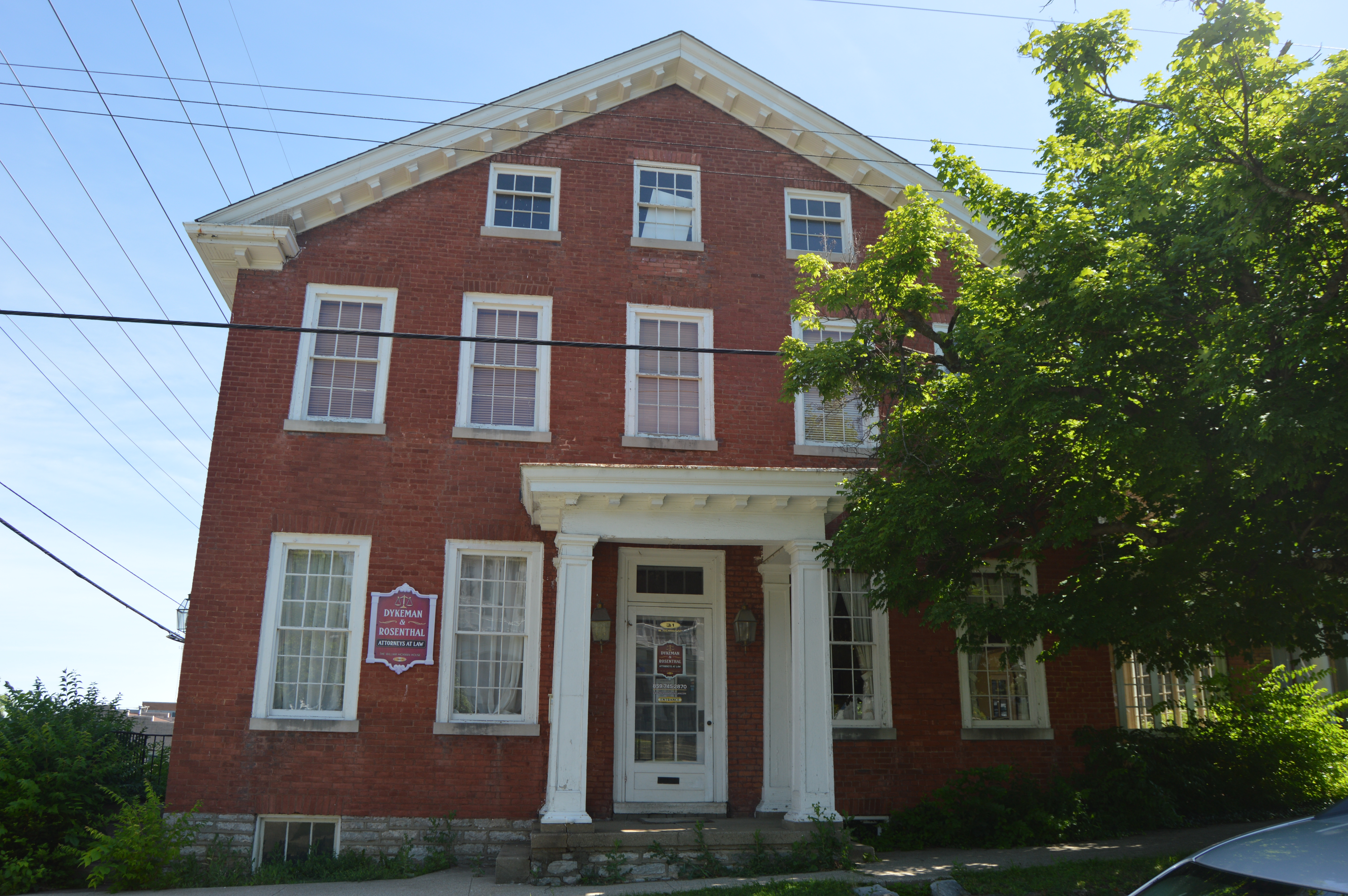 Front of the William Hickman House, located at 31 W. Hickman Street along Kentucky Route 627 in Winchester, Kentucky, United States. Built in 1814, it is listed on the National Register of Historic Places.